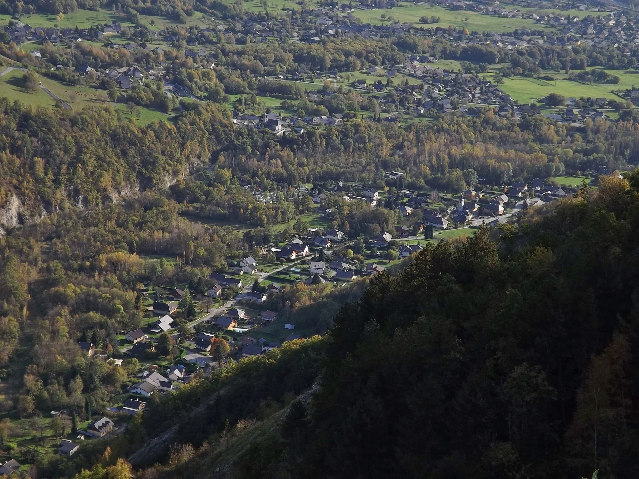 Aerian sight, from the heights of Montgellafrey, on the French villages of Notre-Dame-du-Cruet (foreground) and Saint-Martin-sur-la-Chambre (background), in the Mauriennevalley, in Savoie.